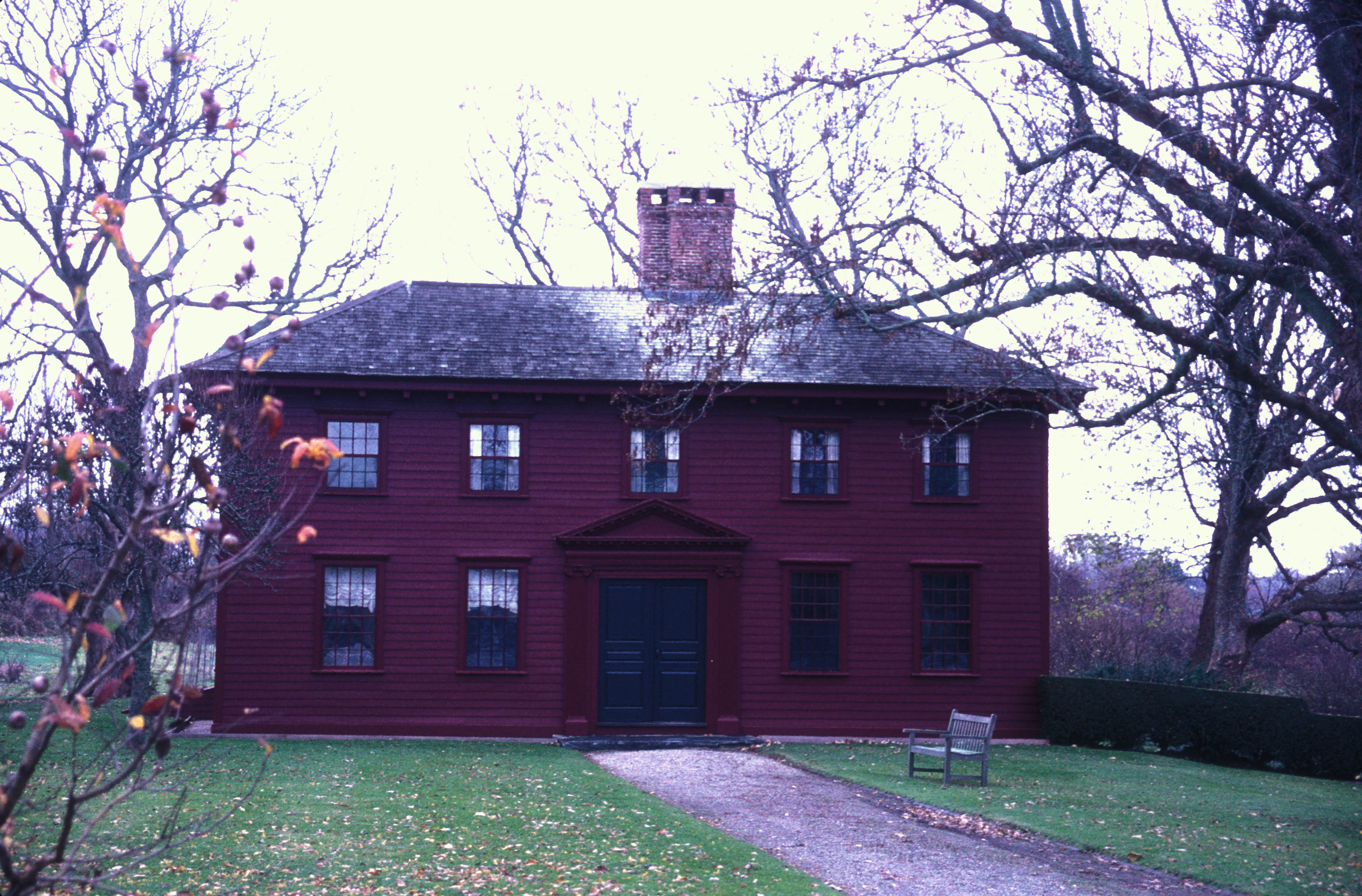 BUILT IN 1729 BY BISHOP GEORGE BERKELEY, A NOTED ENGLISH PHILOSOPHER AND EDUCATOR; LOCATED IN MIDDLETOWN; THIS IS AN UP-TO-DATE PICTURE OF THE HOME IN COLOR